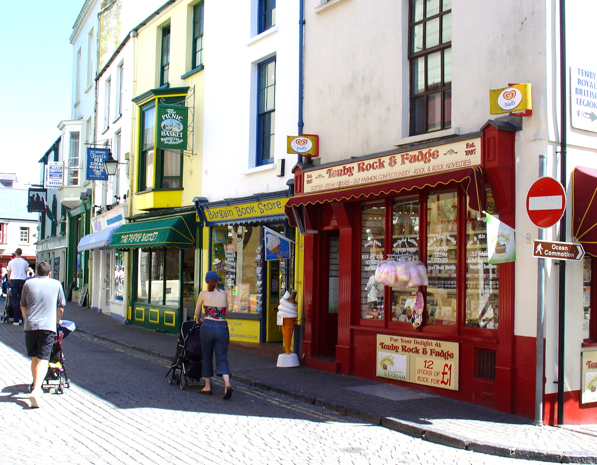 The colourful traditional seaside shops at Tenby, photographed by Aeronian on 4 June 2007 with Sony DSC VI camera Aeronian's images User:Aeronian/Images